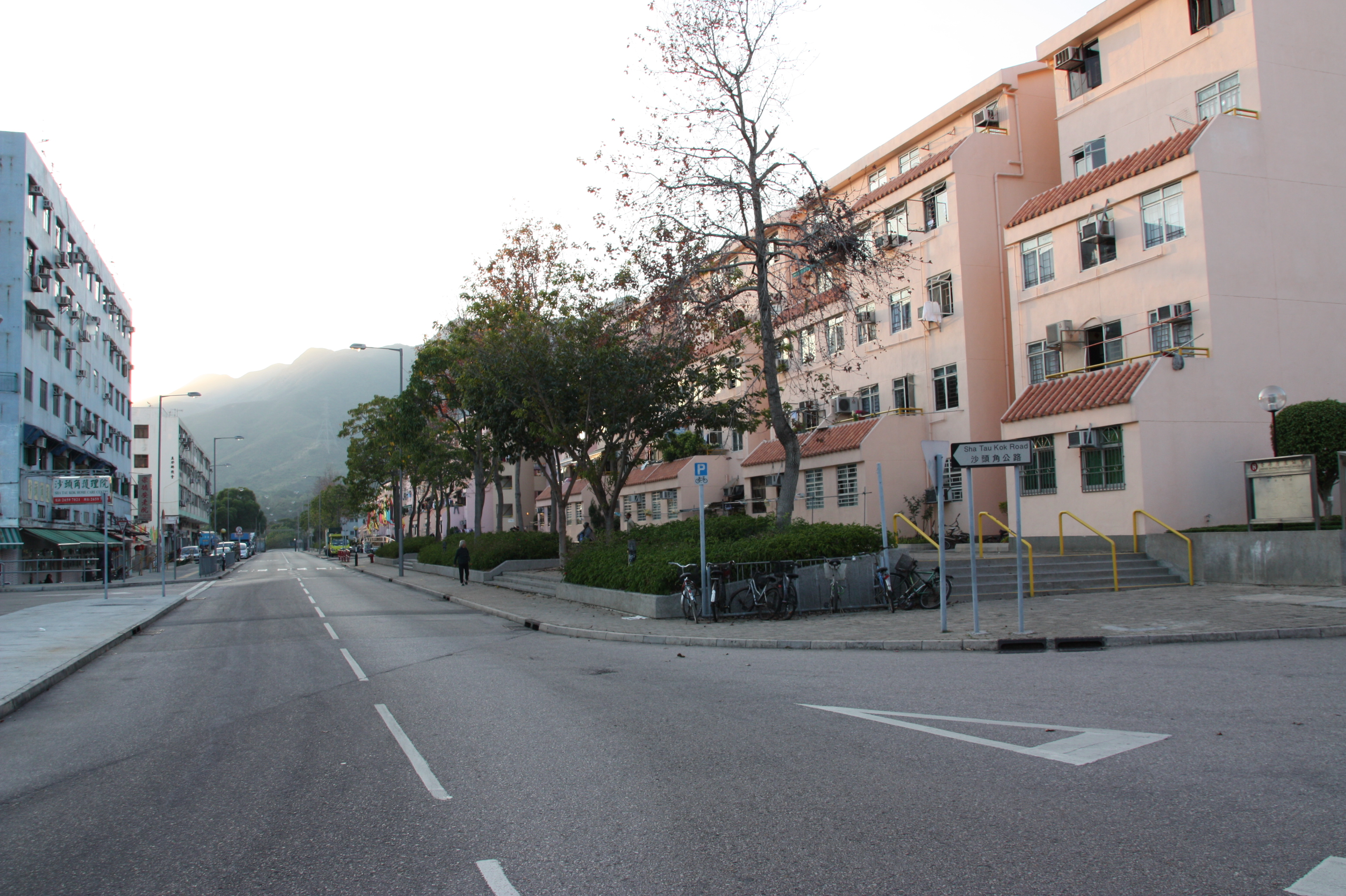 Sha Tau Kok